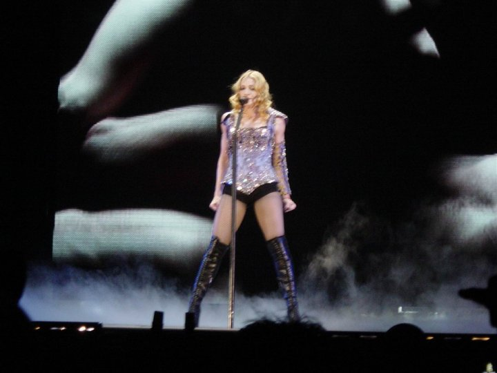 Picture taken during one of the concerts of the 2004 tour.